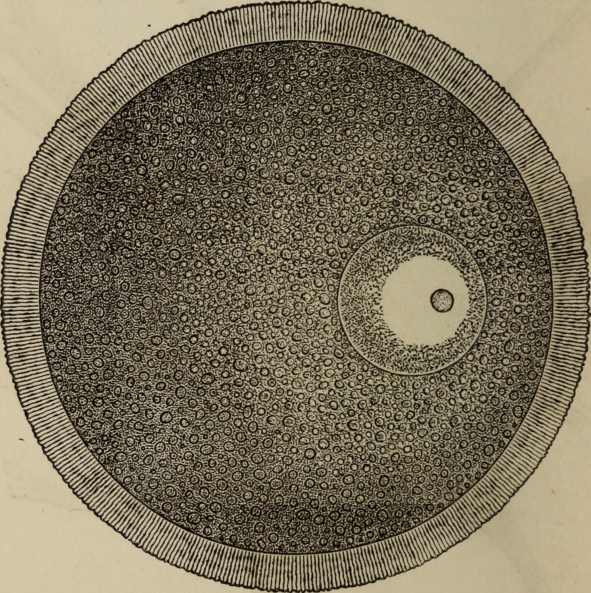 Title: The pedigree of man : and other essays Year: 1903 (1900s) Authors: Haeckel, Ernst Heinrich Philipp August, 1834-1919 Subjects: Man Evolution Man Evolution Publisher: London : A and H.B. Bonner Text Appearing Before Image: 126 THE DIVISION OF LABOR. Fig. 22 A soul-cell or ganglion-cell from the brain of an electric fish(Torpedo). In the middle of the large ramified cell lies thenucleus, enclosing a nucleolus and most internally a nucleo-linus. The protoplasm of the cell is traversed by many verydelicate fibrilla3. The poles or extensions of the branchingcell go partly to nerve-threads (a), serve partly (b) for put-ting this particular soul-cell into relationship with others. walls of the stomach and effect the involuntary move-ments of this organ, are made up of smooth, unstriated,fusiform cells. Finally, the nervous system, highestset of organs in the animal body, subservient to sensa-tion, will, thought, consciousness, in a word, to the so- Text Appearing After Image: Fig. 23. The ovum of man, very strongly magnified. The ovum-cell(l-5th inch in diameter) is surrounded by a finely striatedyolk-membrane, and contains a clear germinal vesicle witha dark germinal spot. THE DIVISION OF LABOR. 127 called soul-functions or spiritual life, is composed oflarge stellate cells, of soul-cells, whose ramifying ex-tensions are connected with the nerve-fibres or delicatealbuminoid fibres, extending from the cells (Fig. 22). Different in kind as are the above-named cells, thaton microscopic investigation wc find interwoven onewith the other, all have but evolved by specialisationfrom a single primitive form of cell, viz., from thathomogeneous, simplest cell to which the egg, at thecommencement of the animals development, givesorigin. Every animal is at the commencement of itsindividual existence a simple ovum (Fig. 23). Butthis egg is in its turn a simple cell, consisting of thesame essential parts as every other cell of the gela-tinous cell-substance (here calle